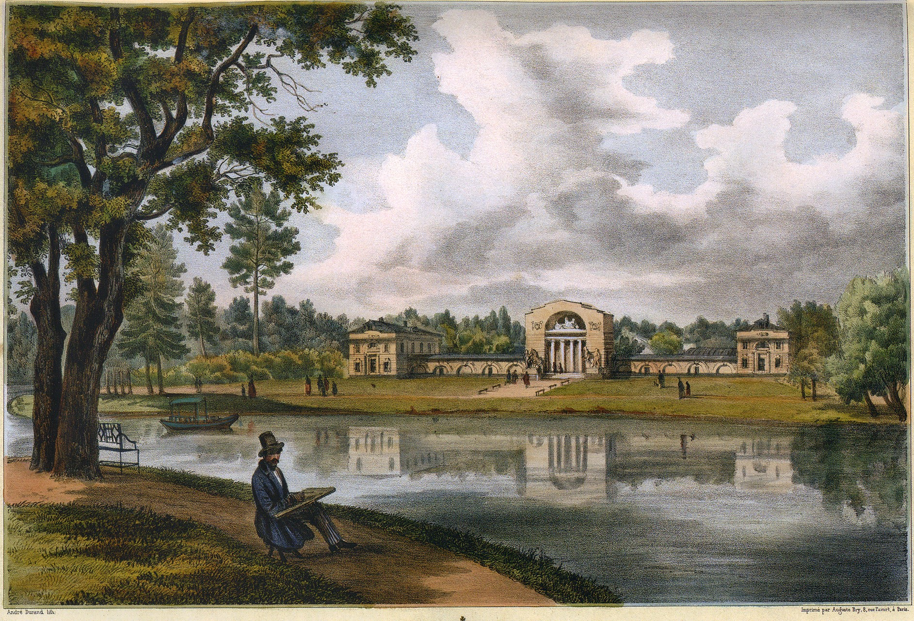 Riding Court in Kuzminki Estate, architect Domenico Gilardi, by Johann Nepomuk Rauch, 1830s.